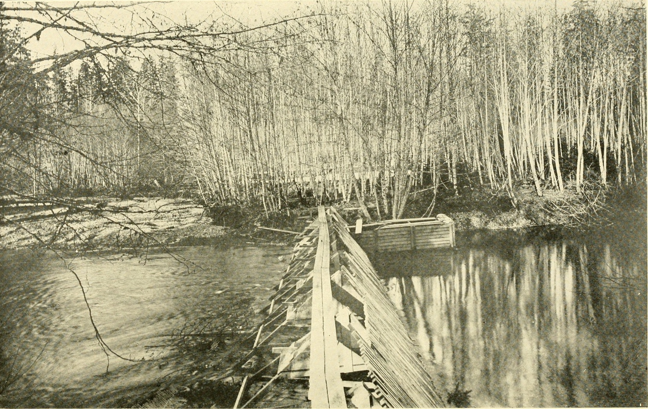 Title: Annual report of the Commissioner of Fisheries to the Secretary of Commerce for the fiscal year ended .. Identifier: annualreportofco1919uniteds Year: 1913 (1910s) Authors: United States. Bureau of Fisheries Subjects: Fisheries Publisher: Washington : G. P. O. Text Appearing Before Image: U. S. B. F—Doc 879. Plate I, Text Appearing After Image: '